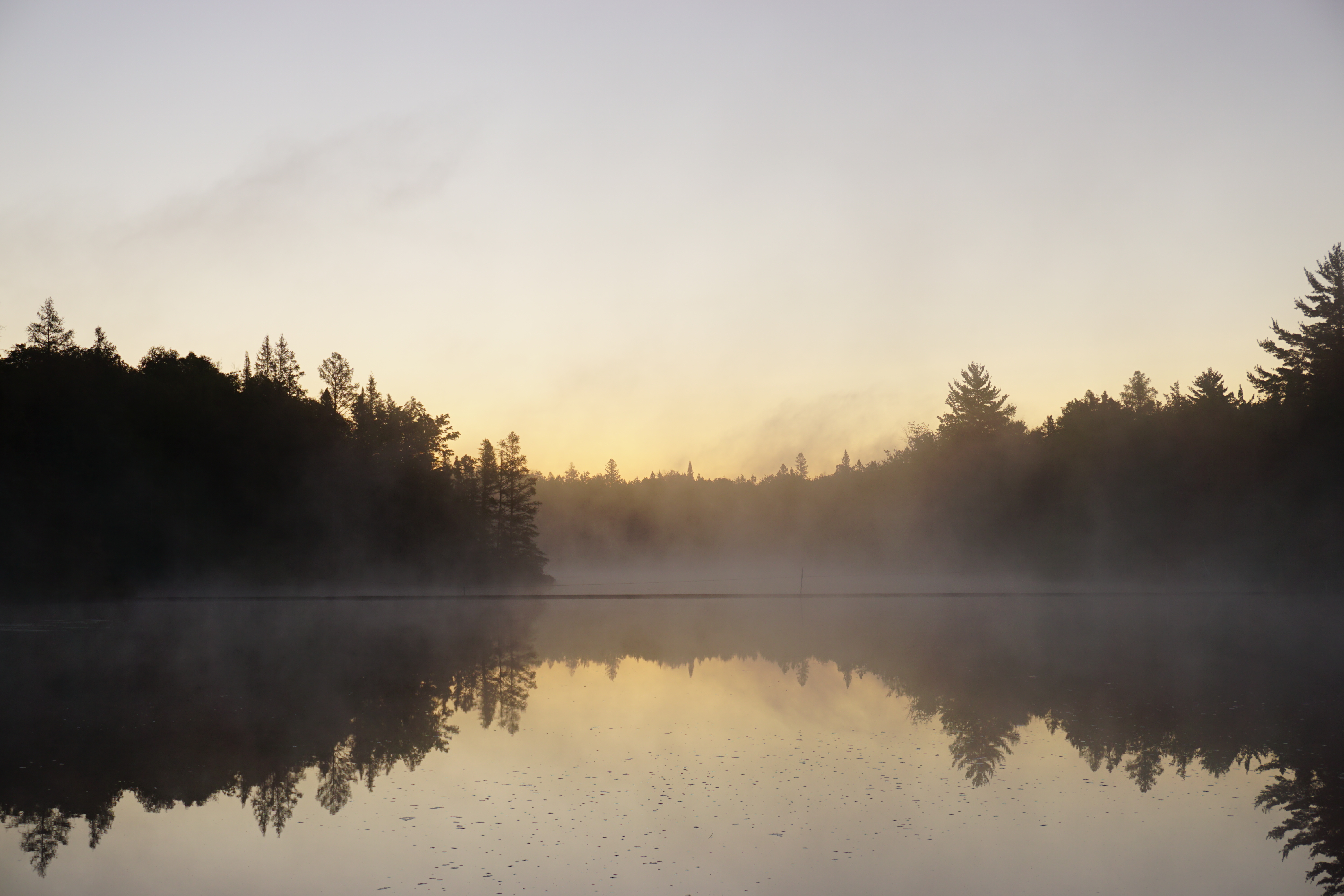 Kinwamakwad Lake (Long Lake) in the early morning of September, 2015. Photo was taken from the West basin looking towards the East basin. At the time this photo was taken, the basins were separated by an impermeable curtain that is visible in the center of the photo.